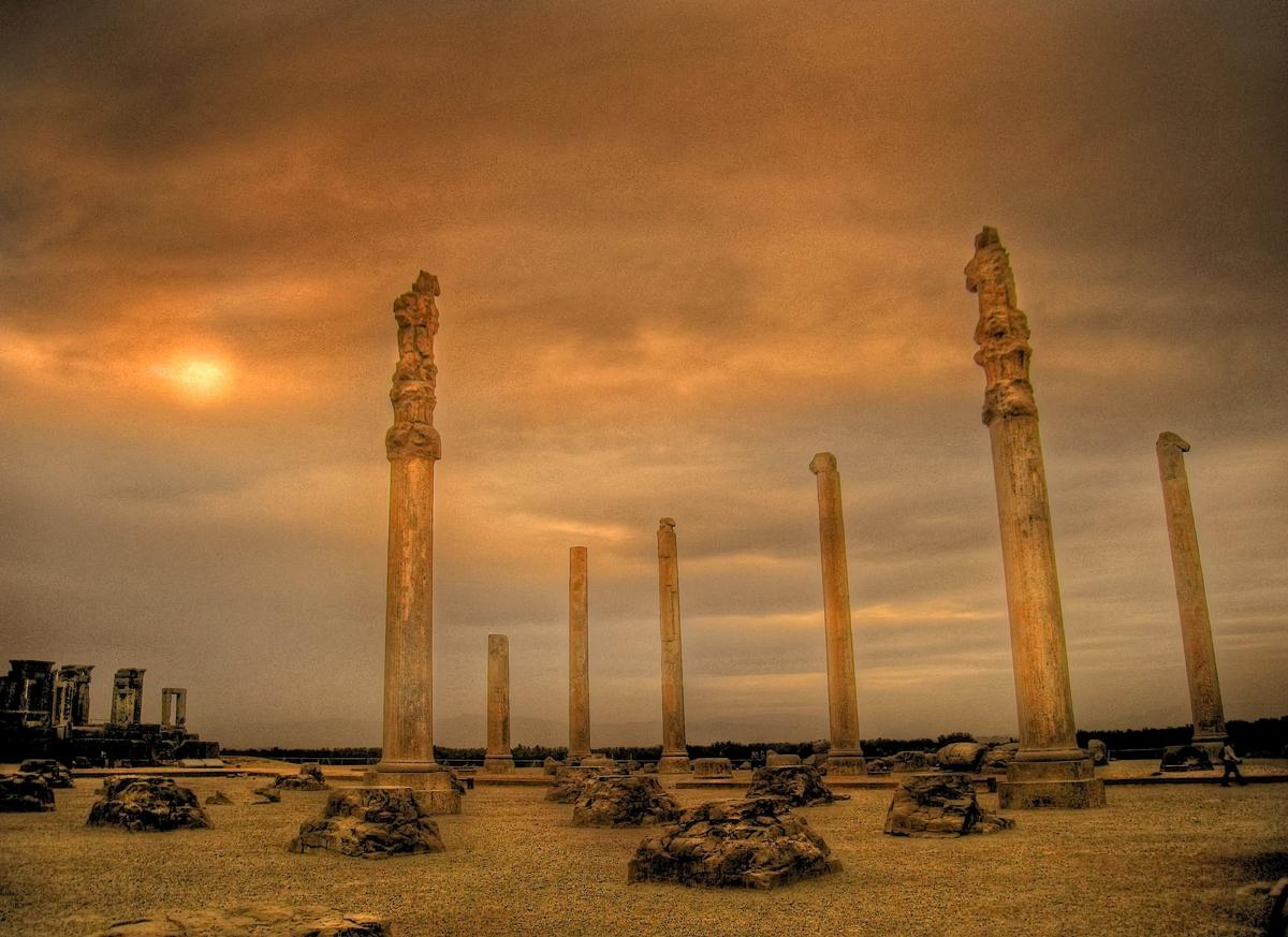 HDR image of Persepolis, Iran.